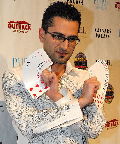 Antonio Esfandiari at the 2007 National Heads-Up Poker Championship